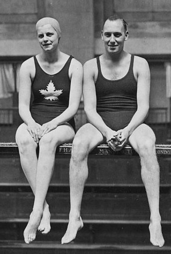 22nd May 1935: Fred Milton and his fiancee Irene Pirie, sitting on a diving board at Marshall Street Baths, London.